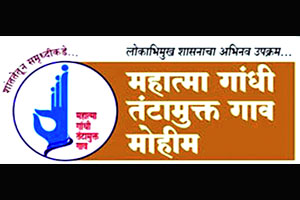 Tantamukti Logo Government of Maharashtra Work Copyright free